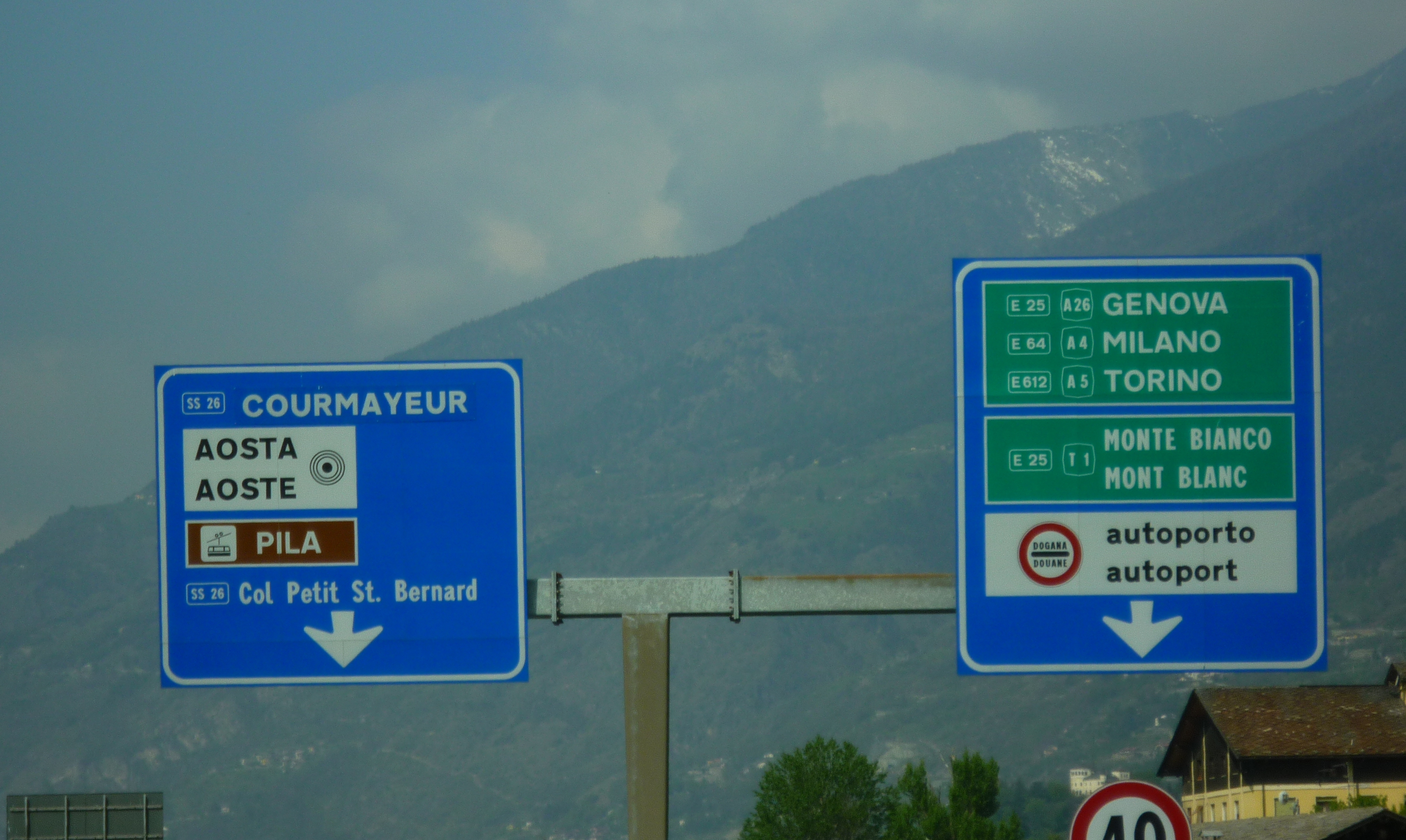 Bilingual road signs in Villair de Quart (Aosta Valley - Italy)